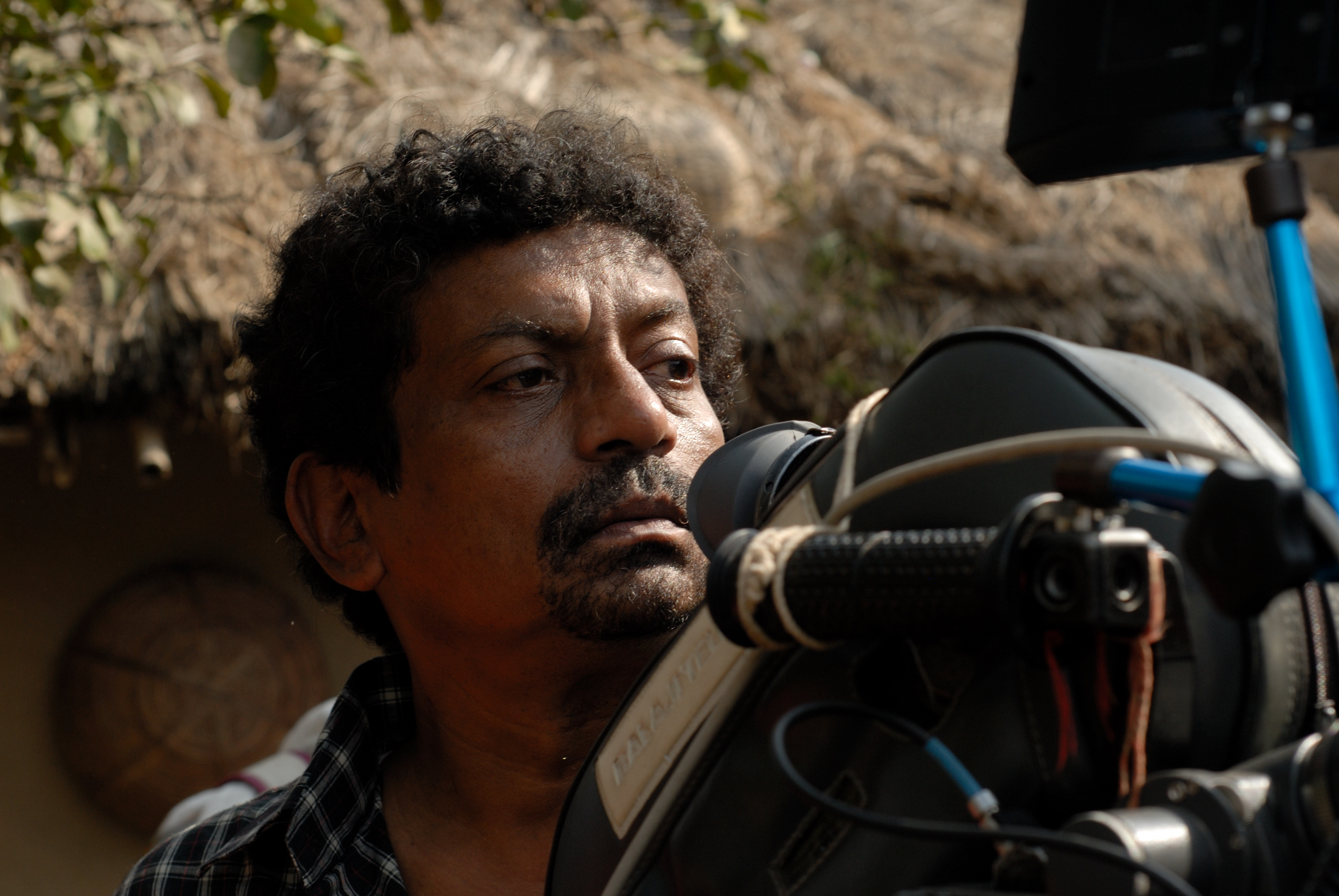 Goutam Ghose